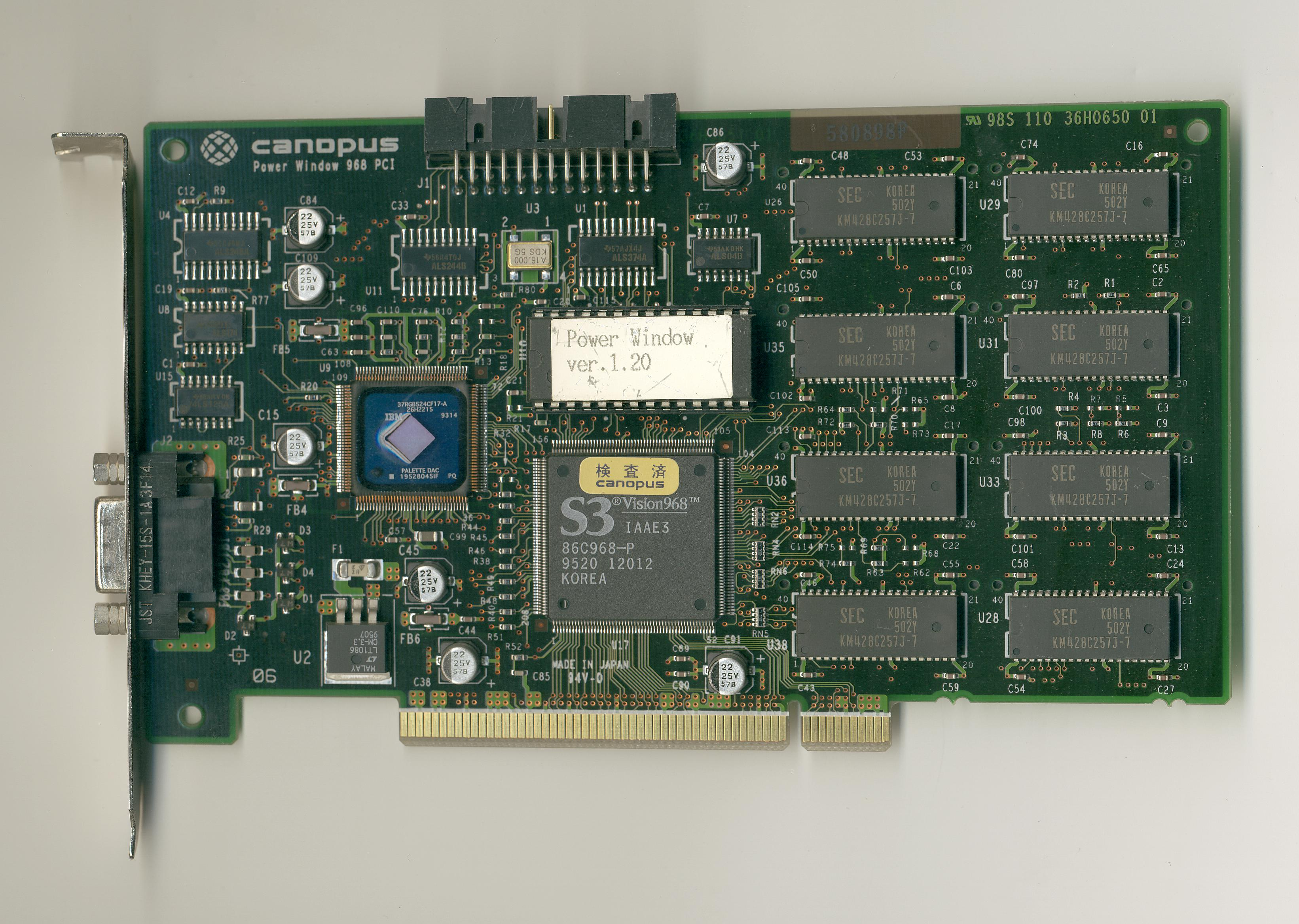 Canopus PowerWindow 968 PCI 4MB (S3 Vision968)